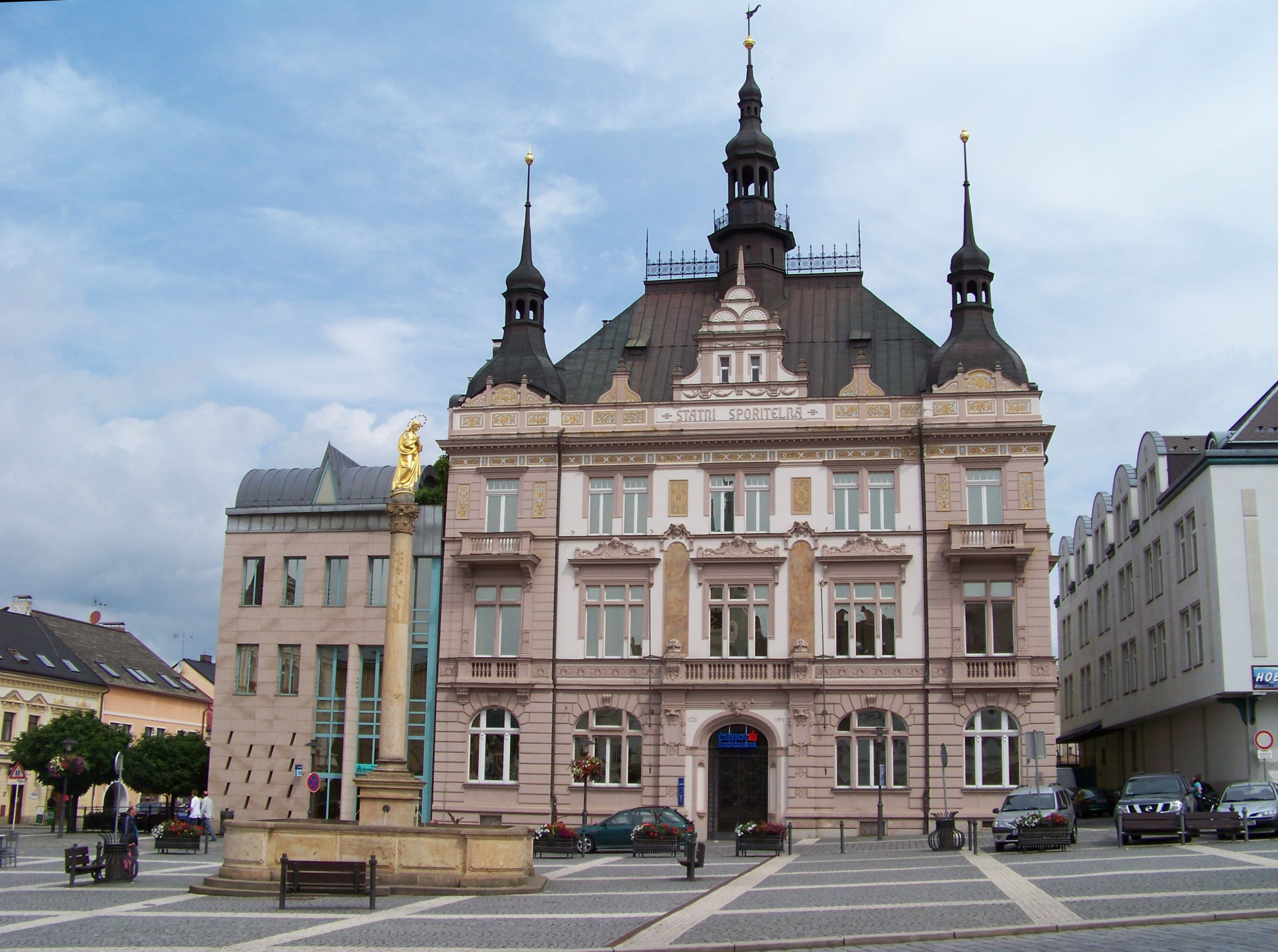 Turnov, Liberec Region, the Czech Republic.